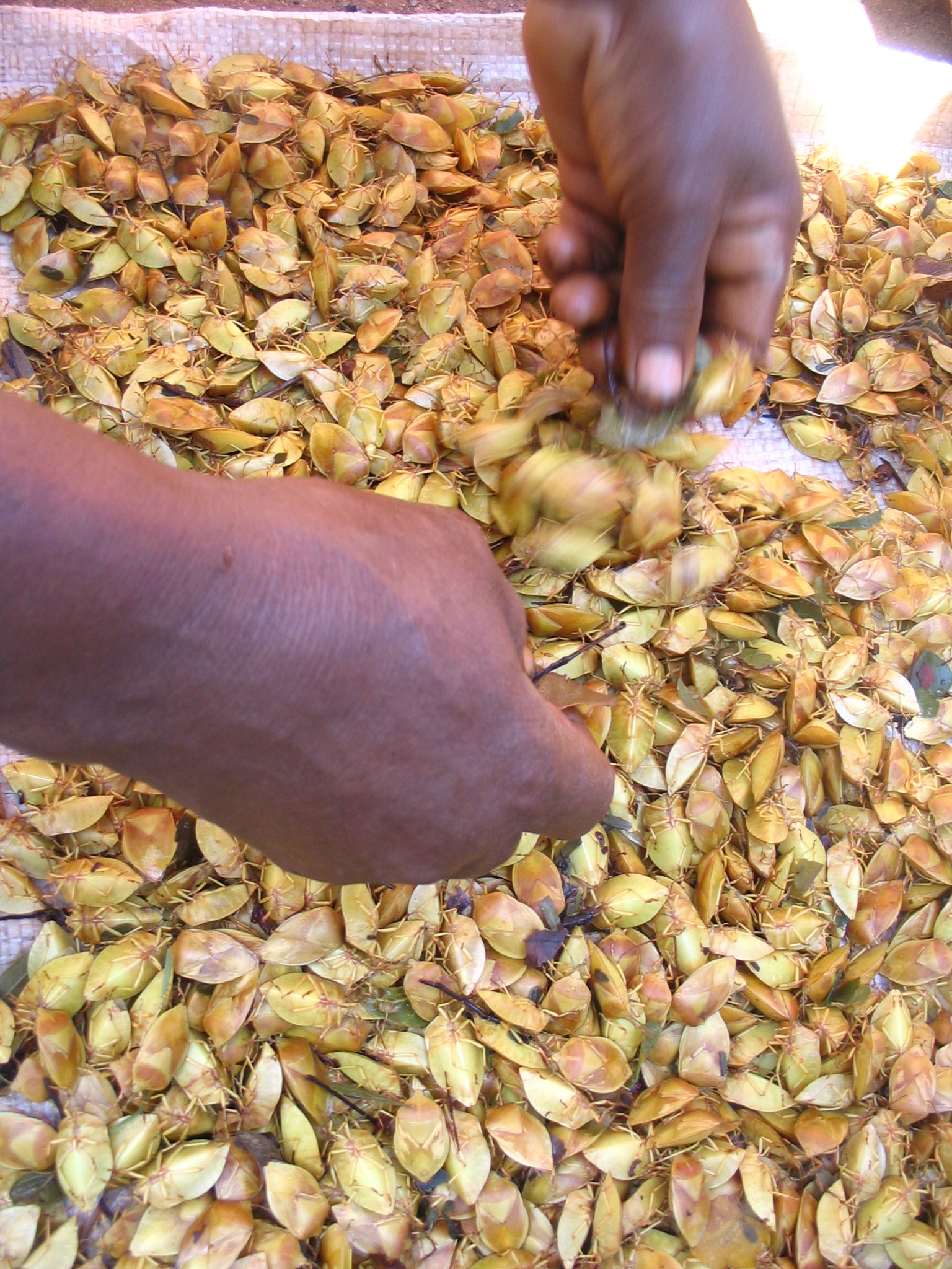 Harvesting of the edible stink bug Encosternum delegorguei in South Africa. Photo courtesy of Cathy Dzerefos, Wildlife and Environment Society of South AfricaDzerefos C.M., Witkowski E.T.F. and Toms, R. 2009. Life-history traits of the edible stinkbug, Encosternum delegorguei (Hem., Tessaratomidae), a traditional food in southern Africa. Journal of Applied Entomology. 133:749-759.